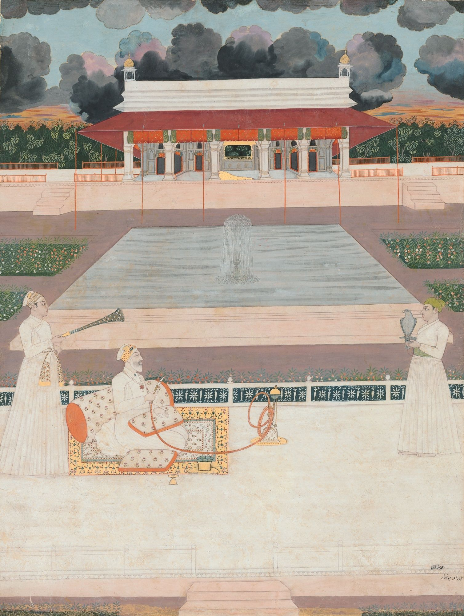 Umdat al Mulk, Amir Khan reclining on cushions in a mughal terraced garden. Attended to by servants.